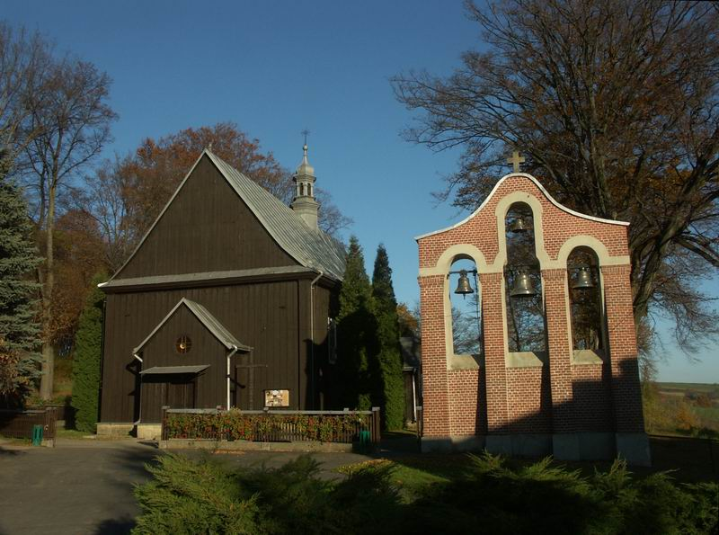 St. Catherine church in Sławęcin, Subcarpathian Voivodeship, Poland. Dating to 1779.